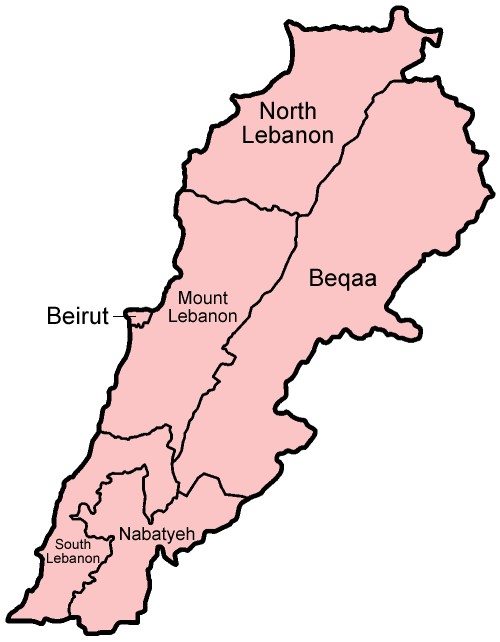 Map of the governorates of Lebanon in English. Made by User:Golbez.